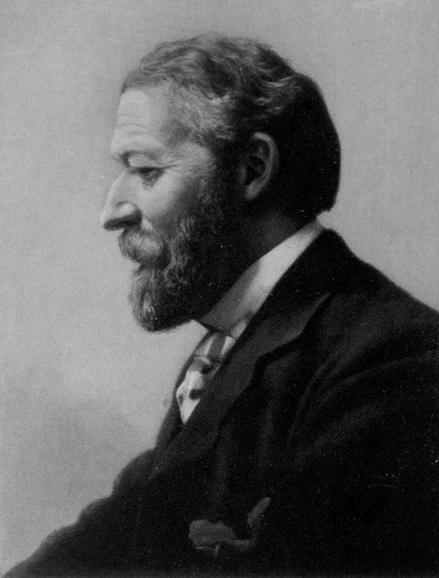 Profile photo of Charles M. Doughty.